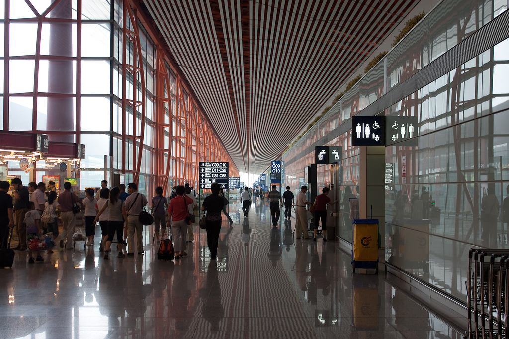 Domestic departures area in Terminal 3 at Beijing Capital International Airport